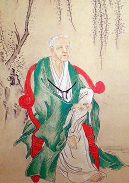 Portrait of Konoike shinroku (detail)